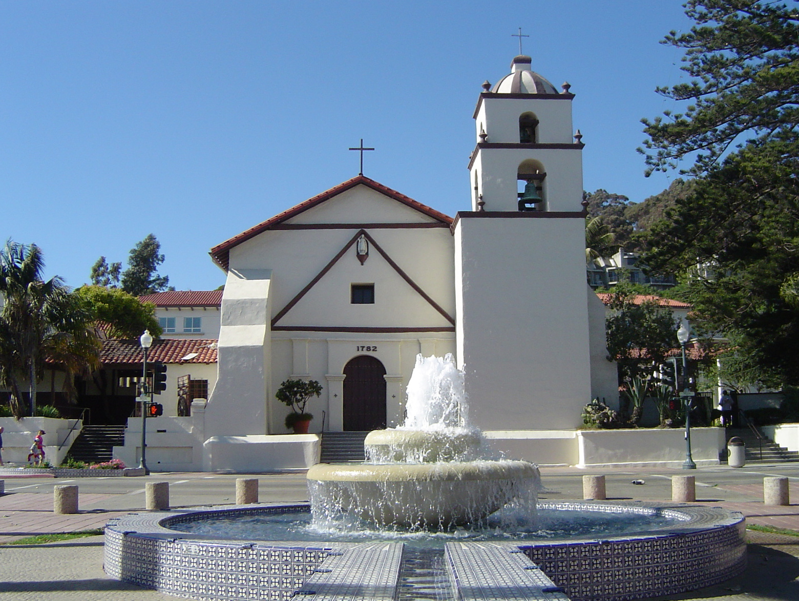 Photographed and uploaded by User:Geographer Restored Mission San Buenaventura on a sunny day in July 31, 2005.